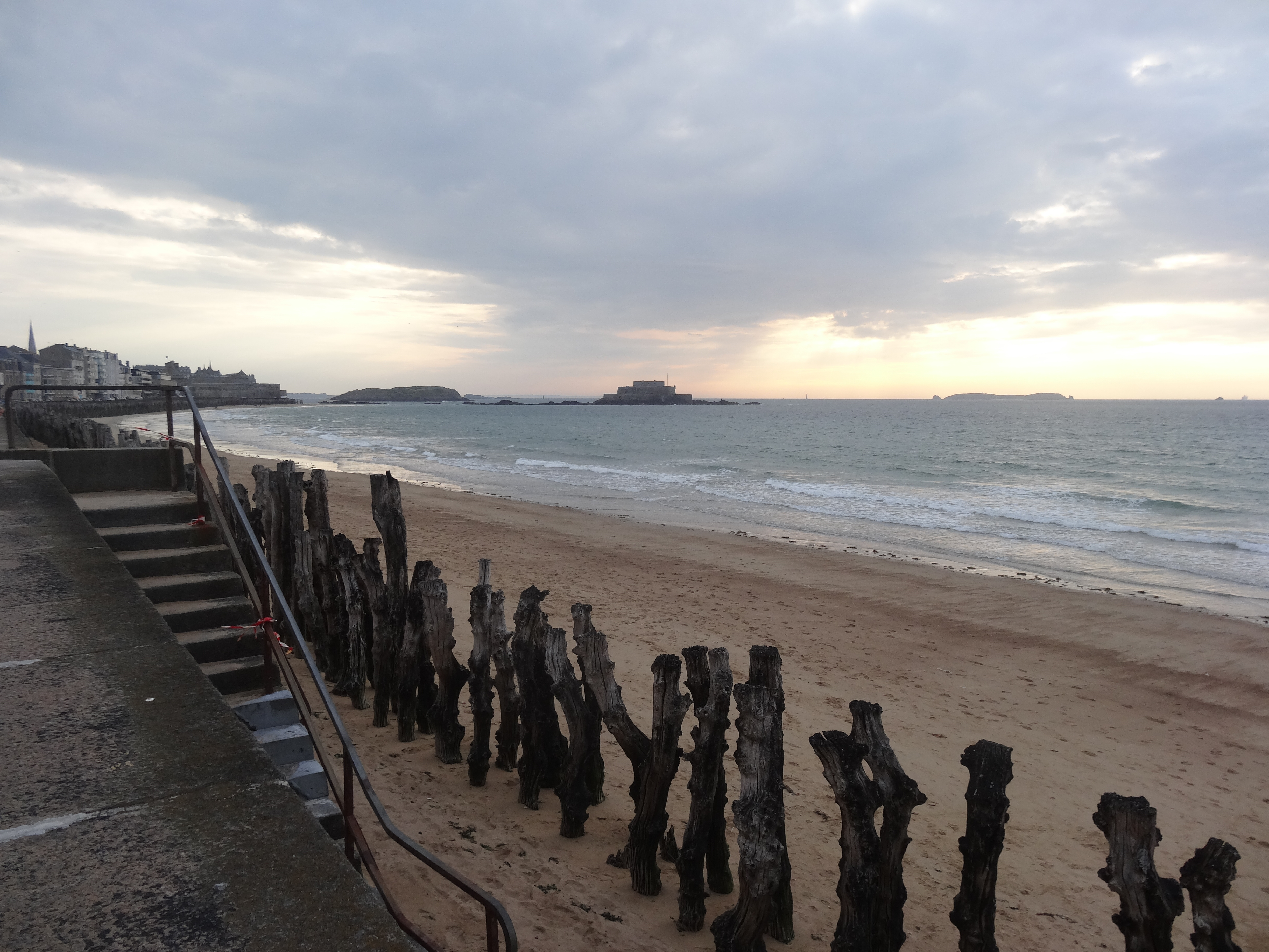 Beach view from Chaussée du Sillon, St-Malo